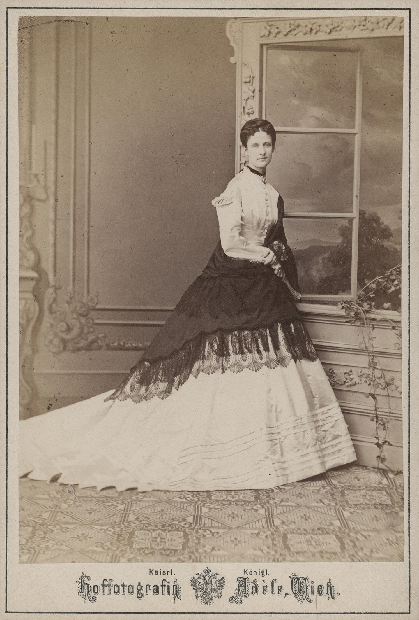 Princes Maria Annunziata of Bourbon-Two Sicilies.